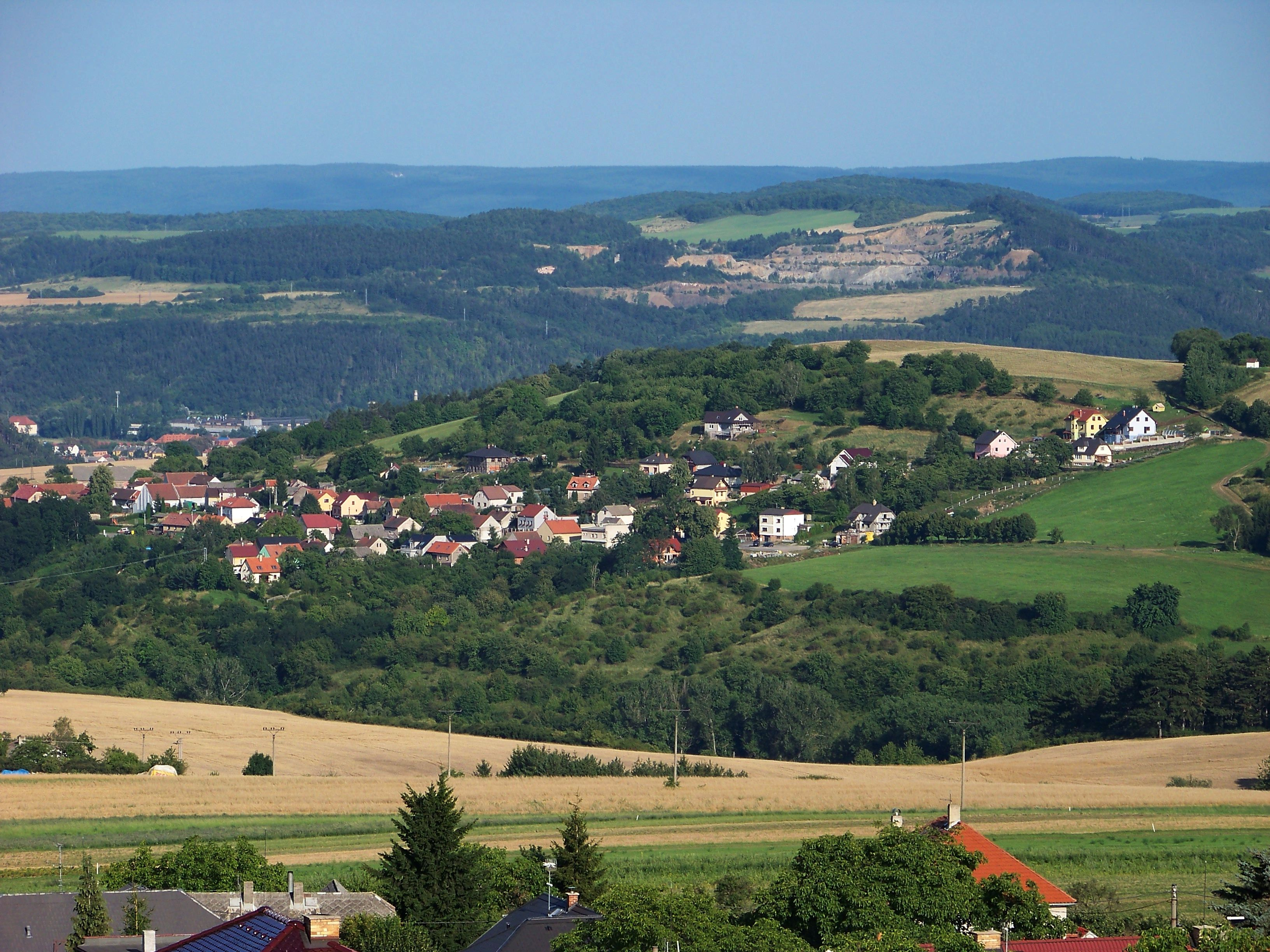 Trubská and Kosov Quarry, seen from Hudlice, Beroun District, Central Bohemian Region, the Czech Republic. A view from Hudlice Rock.